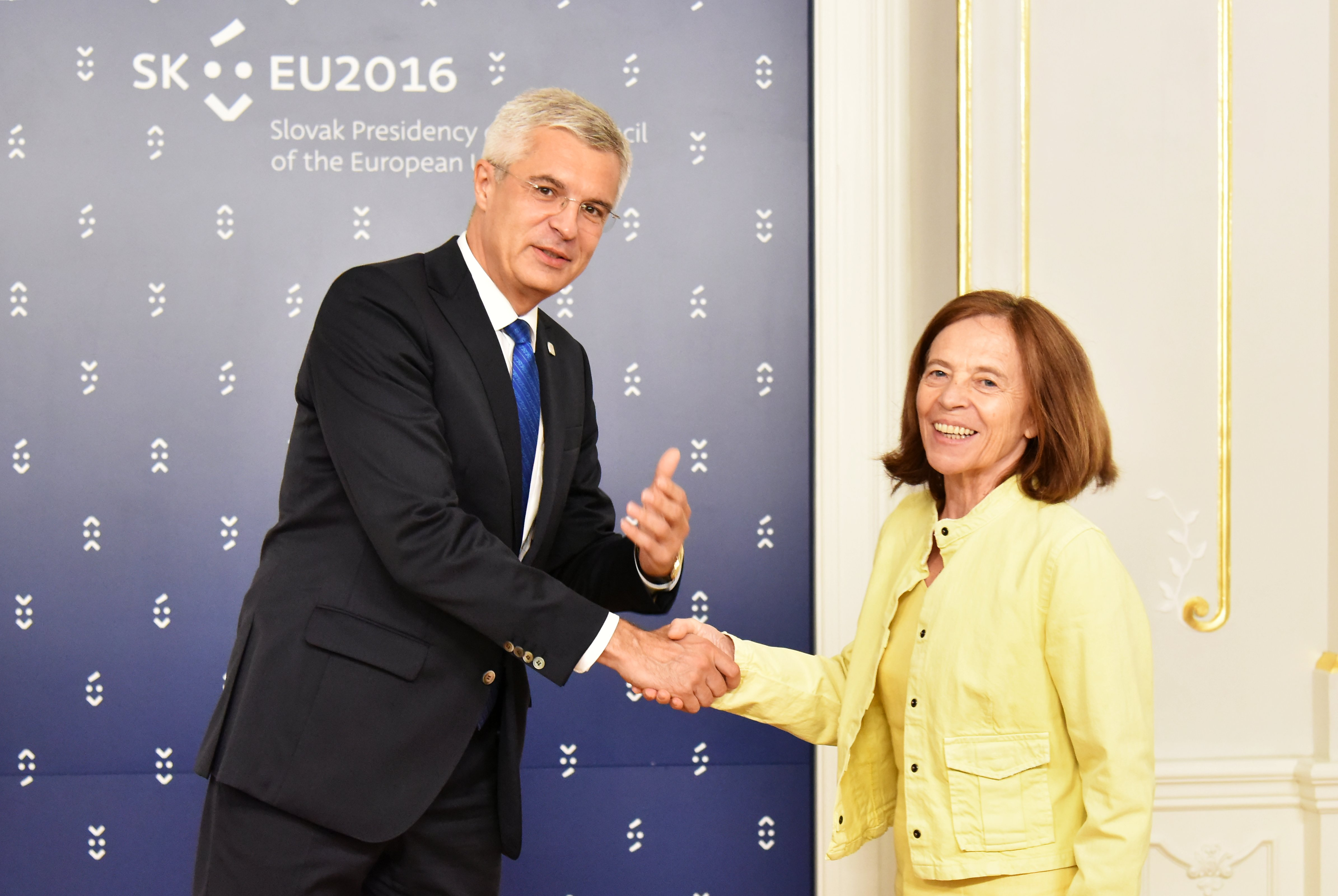 Portugal, Mrs. Margarida Marques, Secretary of State for European Affairs Informal Meeting of Ministers and State Secretaries for European Affairs (Informal GAC) ph halime sarrag